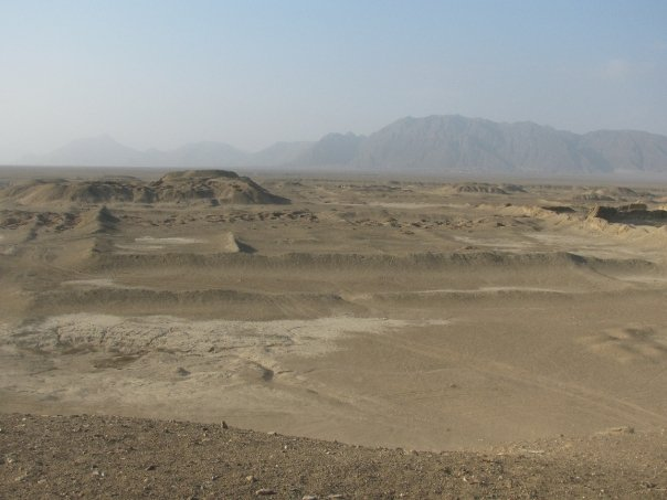 Pacatnamu site, Peru, with mountains in the distance. Taken in July 2009.